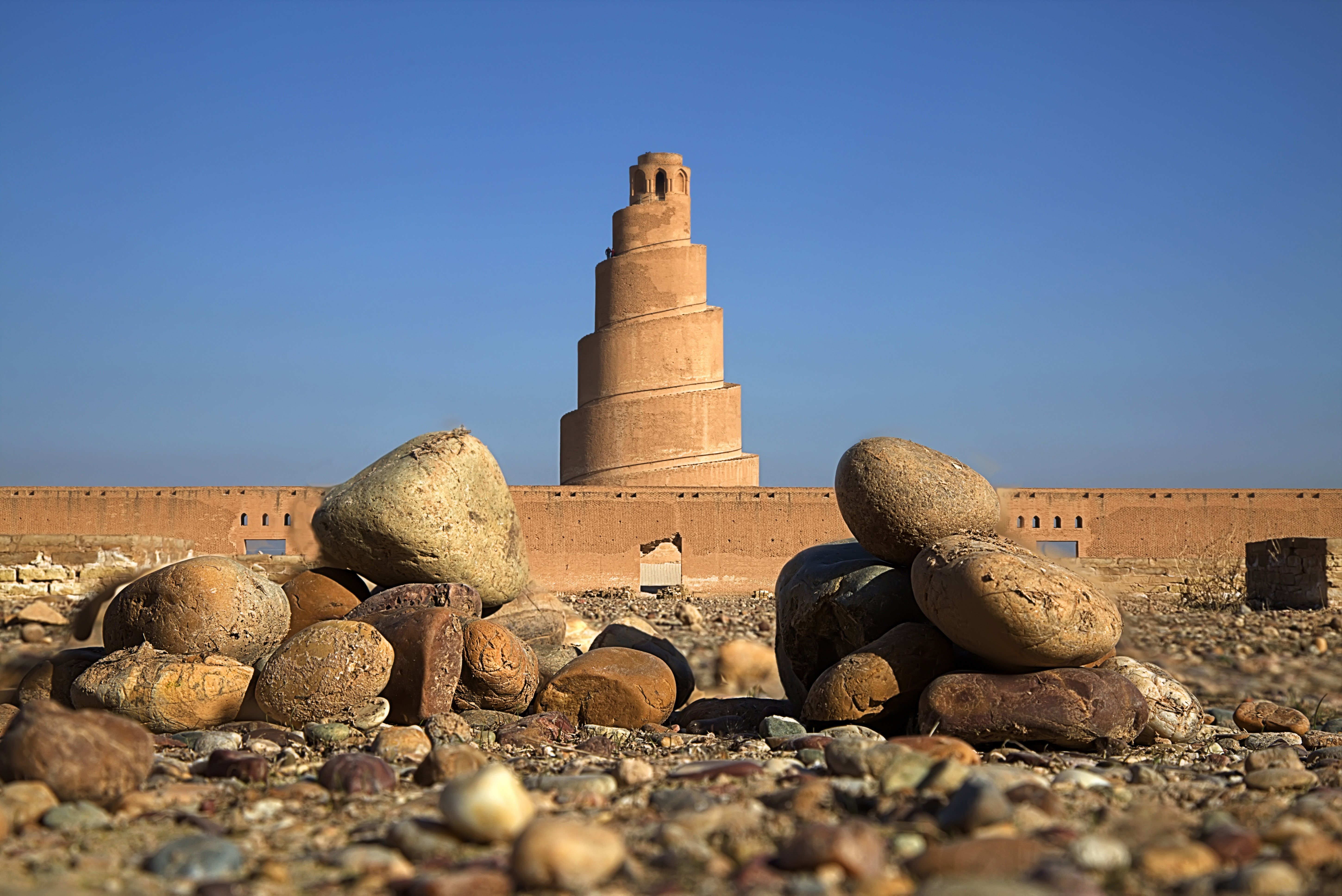 Great Mosque of Samarra